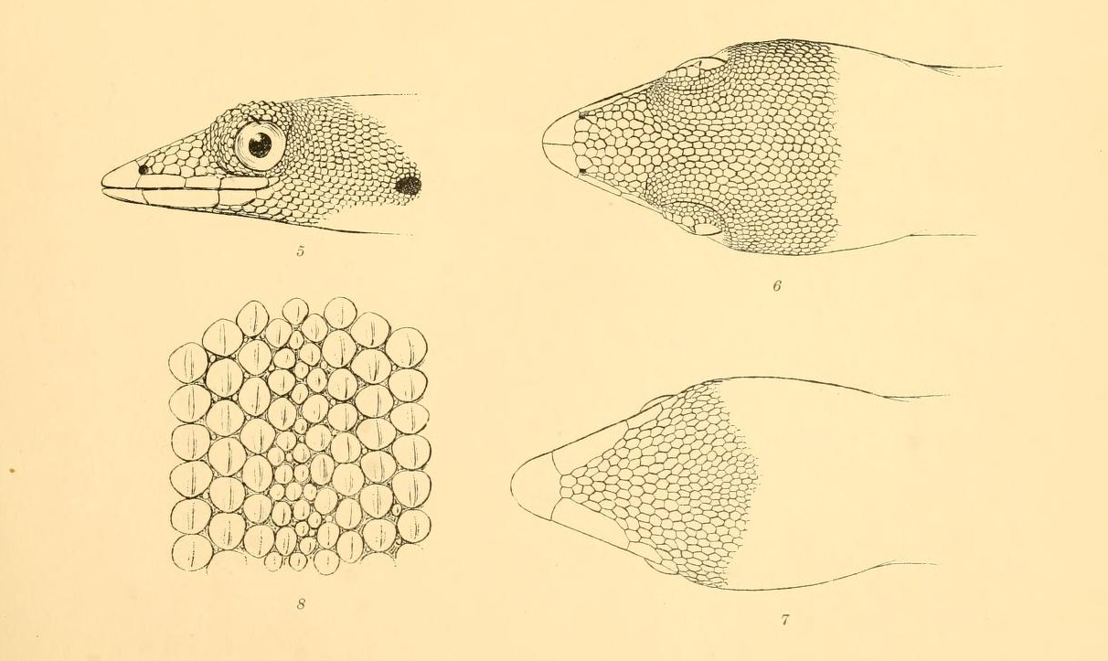 Illustrations of head of Sphaerodactylus fantasticus specimen from Guadeloupe. Fig. 5, lateral view; fig. 6, dorsal; fig. 7, ventral; fig. 8, dorsal scales from tip of snout to center of eye. Barbour, Thomas (1921). "Sphaerodactylus." Mem. Mus. Comp. Zool. 47:3, Pl. 22, Fig. 5-8.